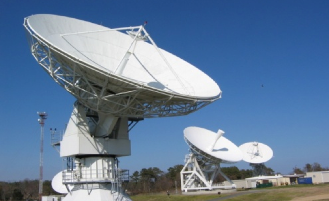 NOAA Wallops Command and Data Acquisition Station in Wallops, Virginia. Pictured are three 16.4-meter antennas capable of withstanding the winds of a Category 2 hurricane.